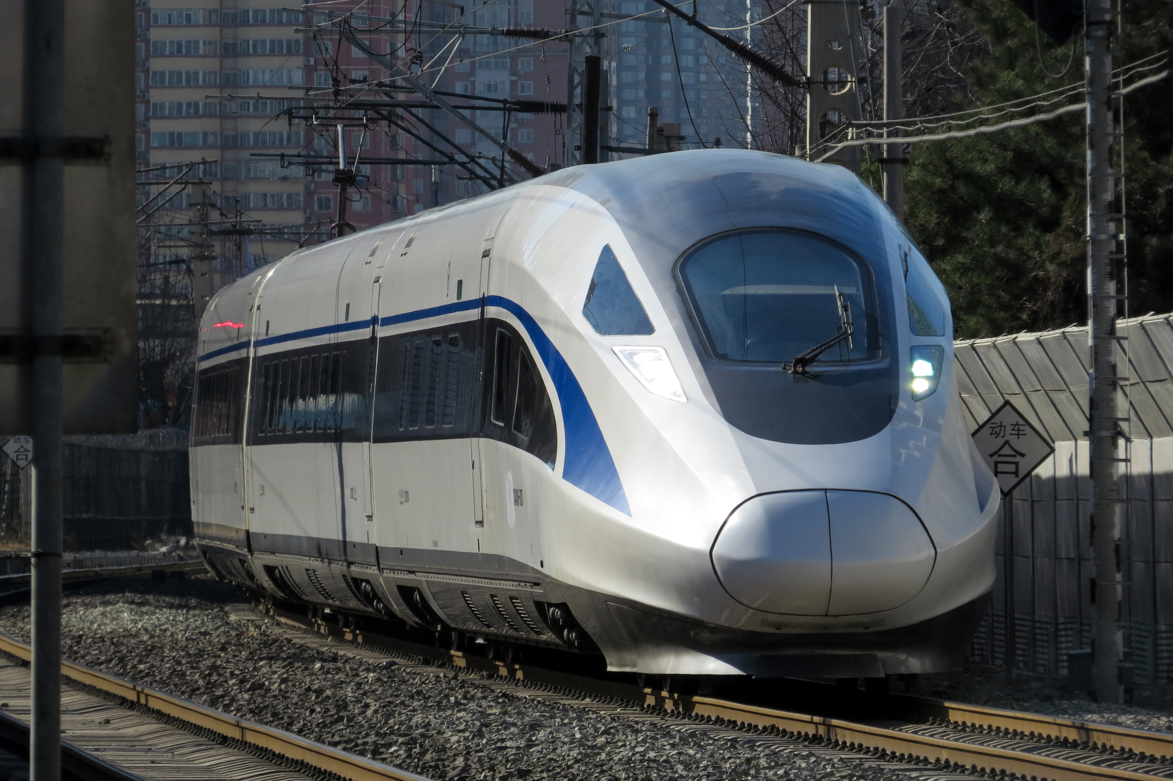 0G66 from the depot.